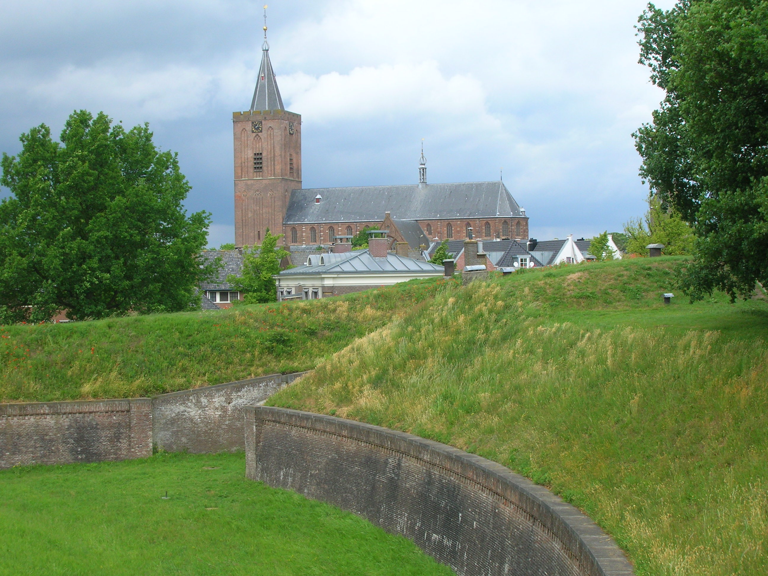 The former Church of St Vitus, in Naarden.